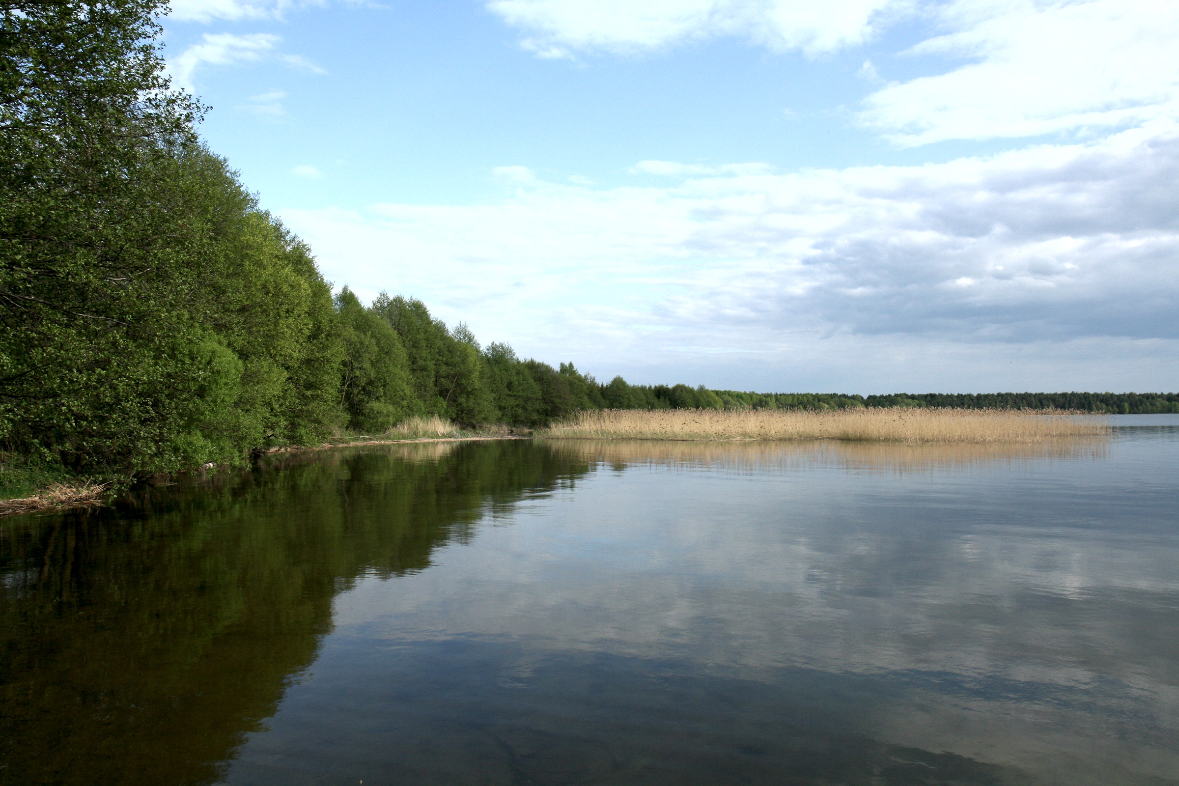 Miastra lake from the South. Miadziel district, Belarus.